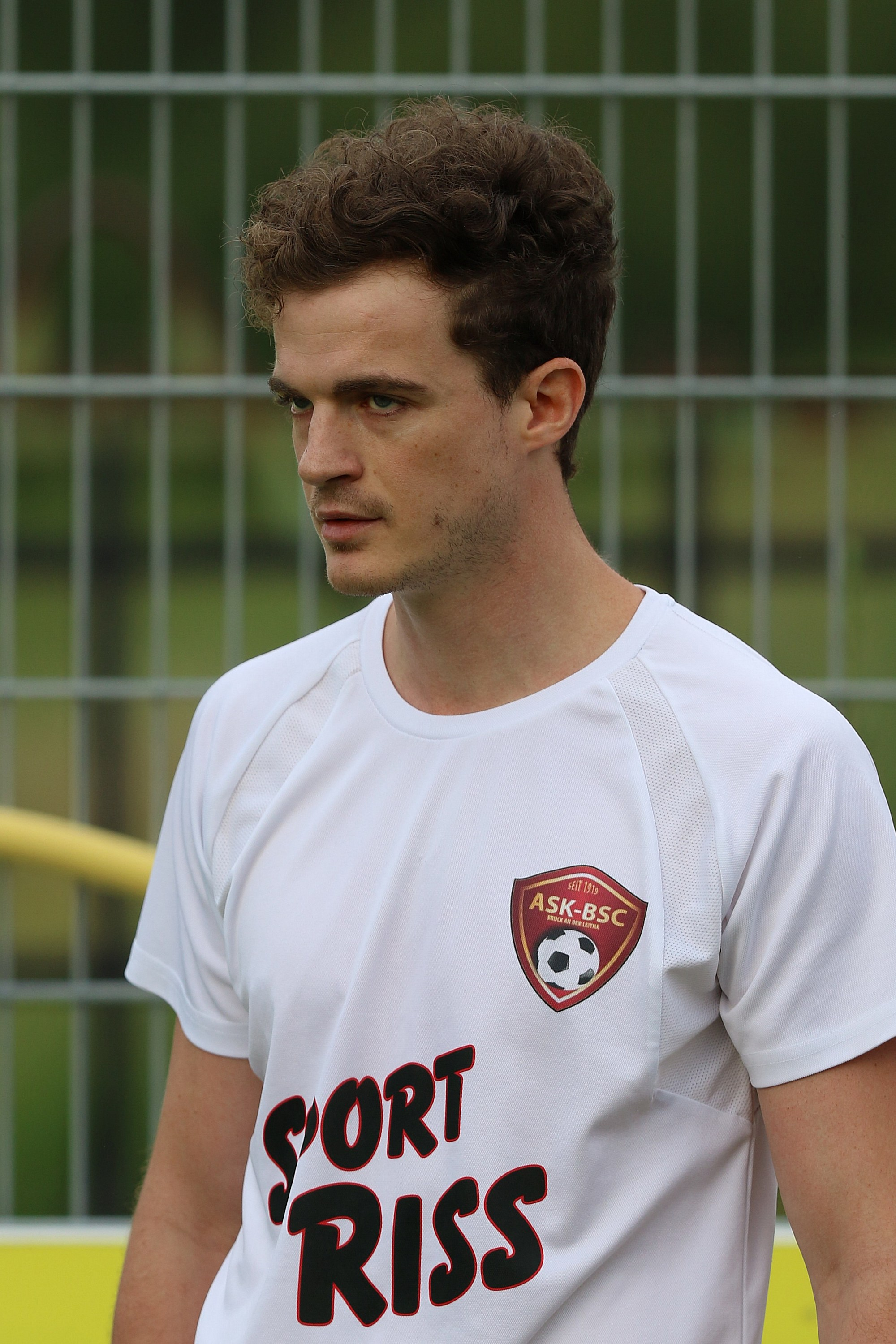 2017–18 Austrian Cup - SC Bad Sauerbrunn (blue-white shirts) vs. ASK-BSC Bruck an der Leitha (white shirts) 0-4. – The photo shows Thomas Horak.